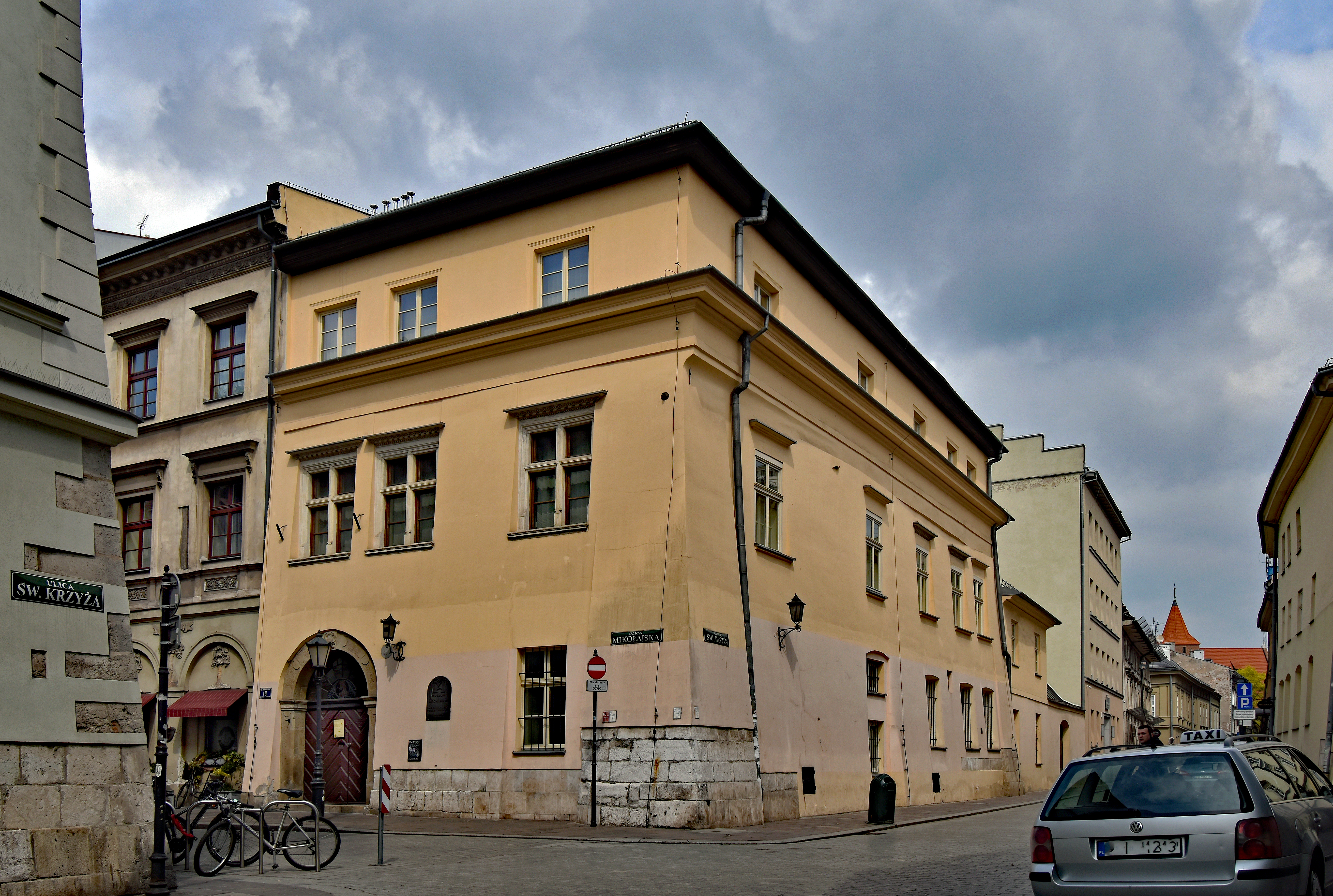 Convent of the Congregation of Felician Sisters, 18 Mikolajska str, Old Town, Krakow, Poland